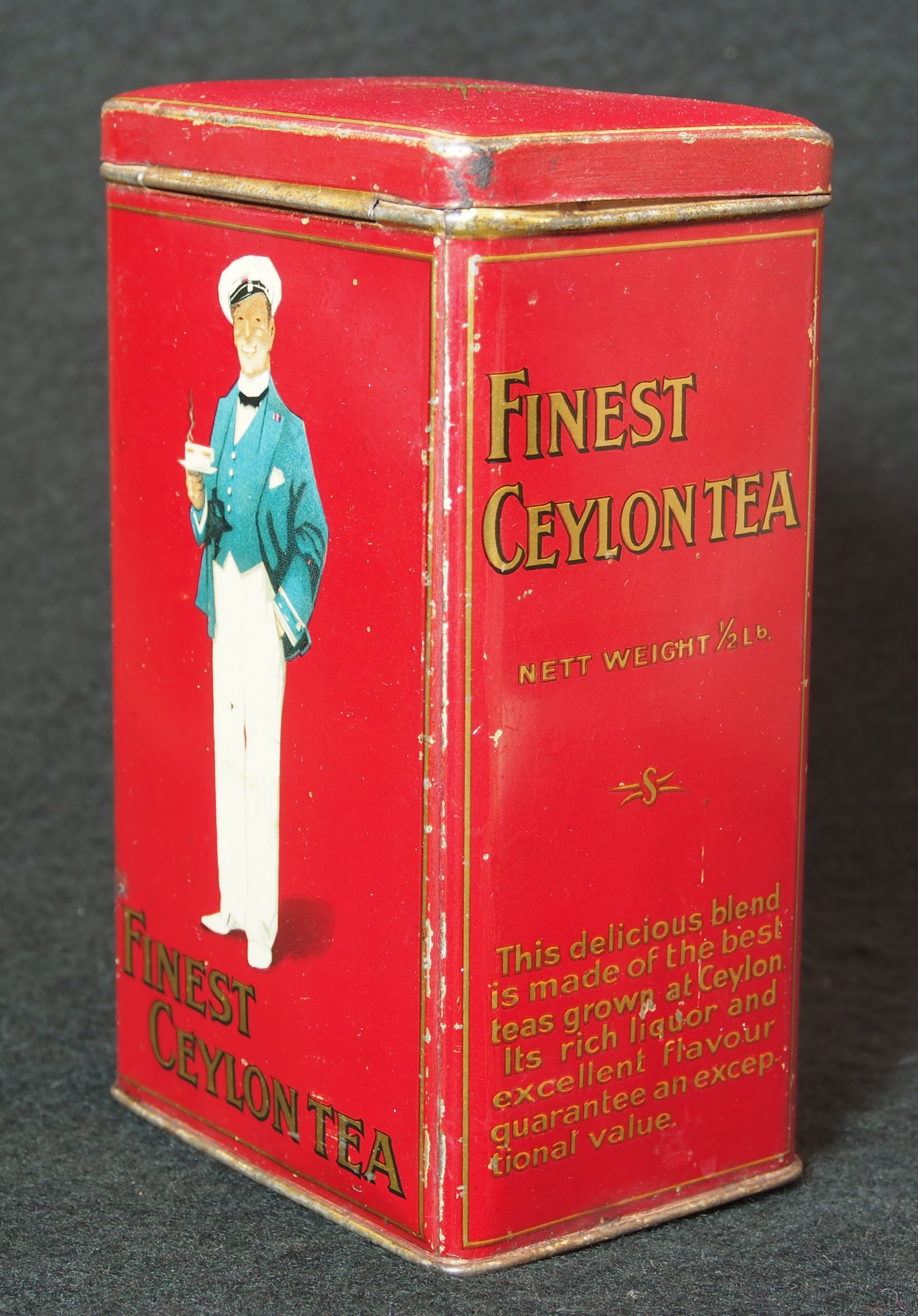 Very old product that is not produced and not sold any more. Note that some tins may look the same, but when looked for carefully there are some slight differences! For more info see tincollectors.nl or